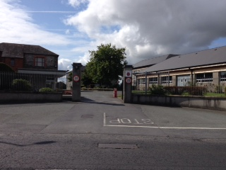 Aiken Barracks. Irish Army facility, Dundalk, County Louth.